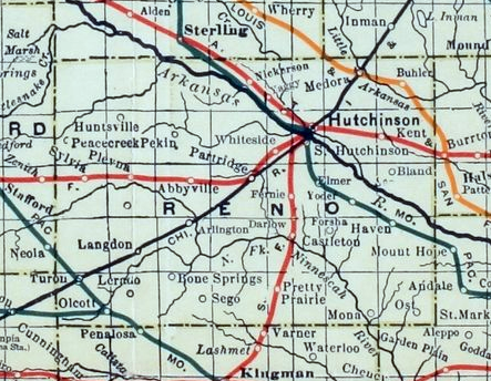 Stouffer's Railroad Map of Kansas, 1915-1918, Reno County.